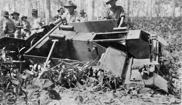 AWM Caption: Malaya. c 1941. Men of the 2/19th Battalion standing around a local pattern Bren Gun Carrier bogged in a ditch in Malaya.